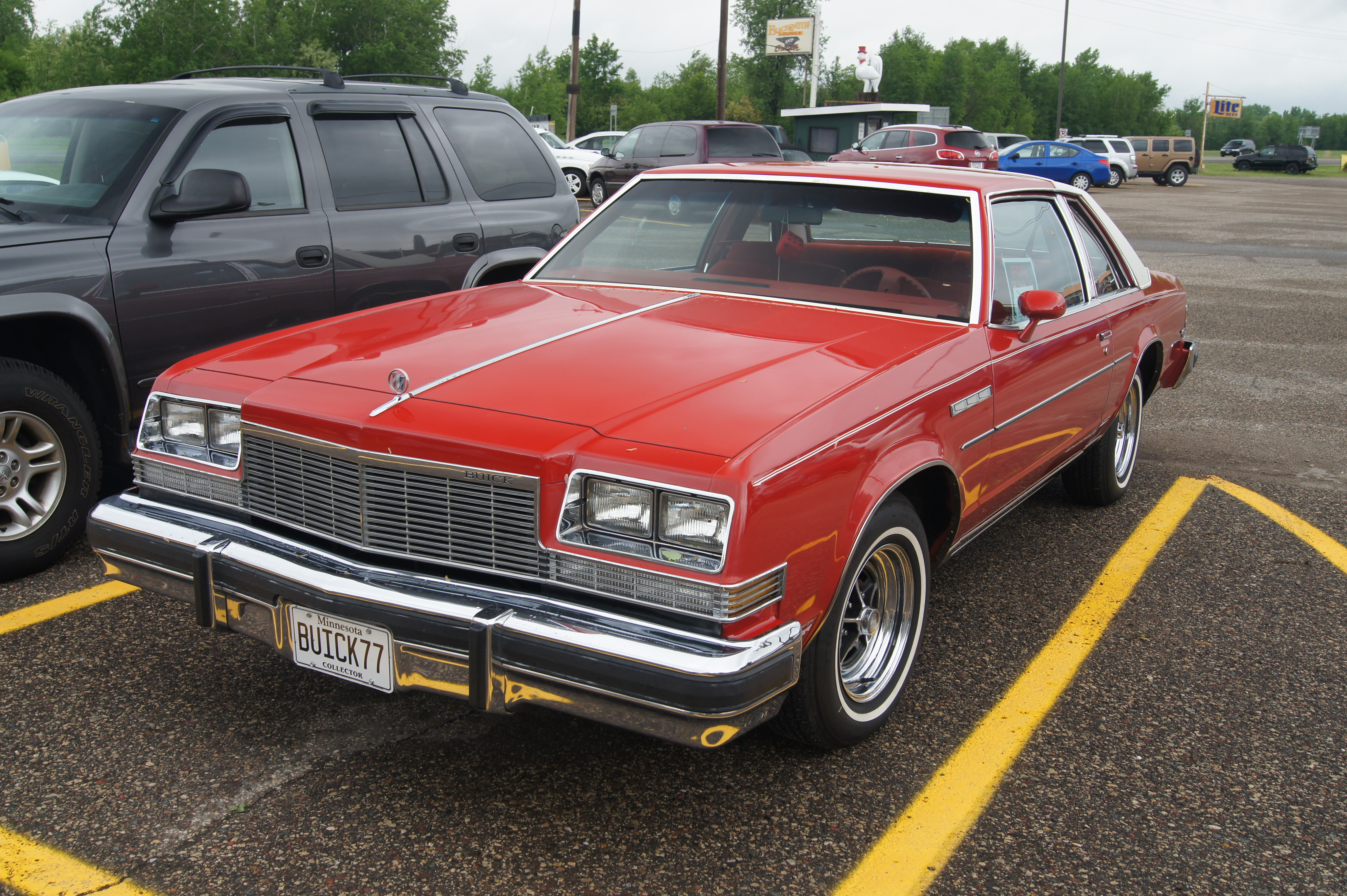 North Star Studeb@ker Drivers Club 41st Annual Car Show Memorial Day 2015 Blacksmith Lounge Hugo, Minnesota Click here for more car pictures at my Flickr site.